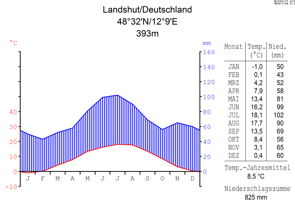 climate chart in the format by Walther and Lieth, metric, °Celsisus and millimeters, made with Geoklima 2.1 DateOctober 2006SourceSoftware: Geoklima 2.1 Website GeoklimaAuthorHedwig in WashingtonPermission (Reusing this file) Own work, attribution required (Multi-license with GFDL and Creative Commons CC-BY 2.5) Source: [1]